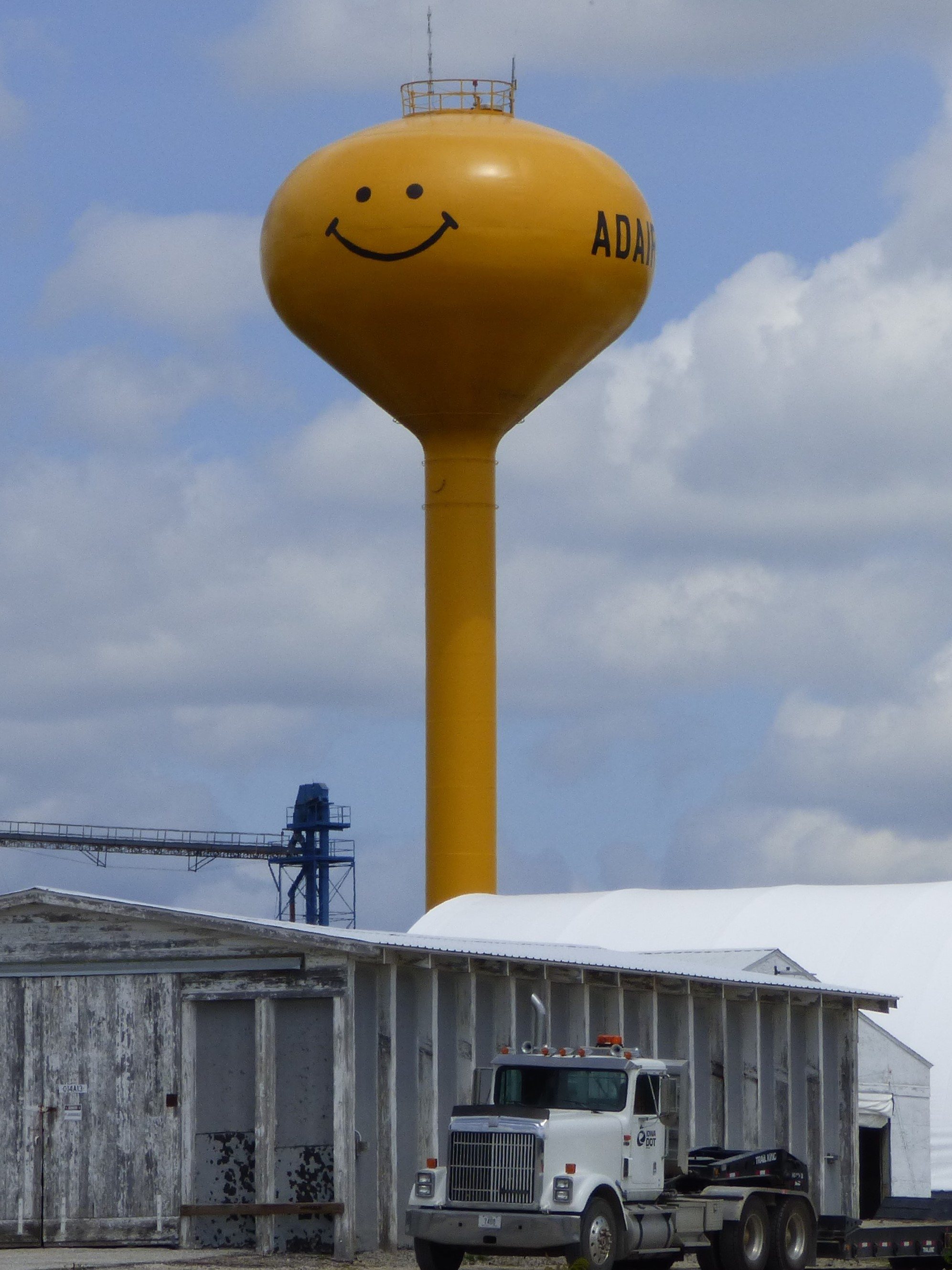 Water tower, Adair. Not my best photo, if someone has a better one of Adair, please replace. Sad to say that I took it from I-80. My apologies...